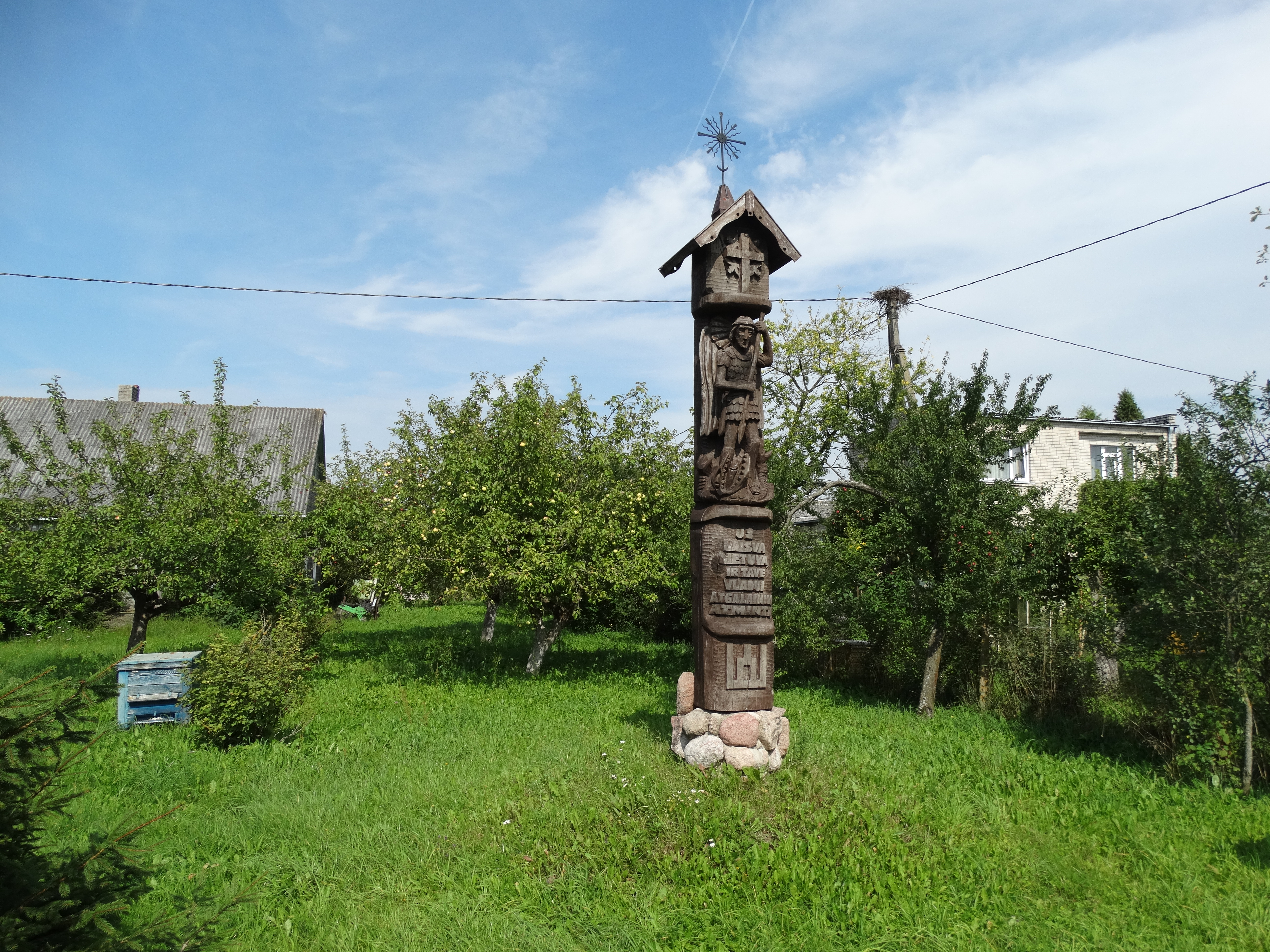 Griciai, Jurbarkas district Lithuania